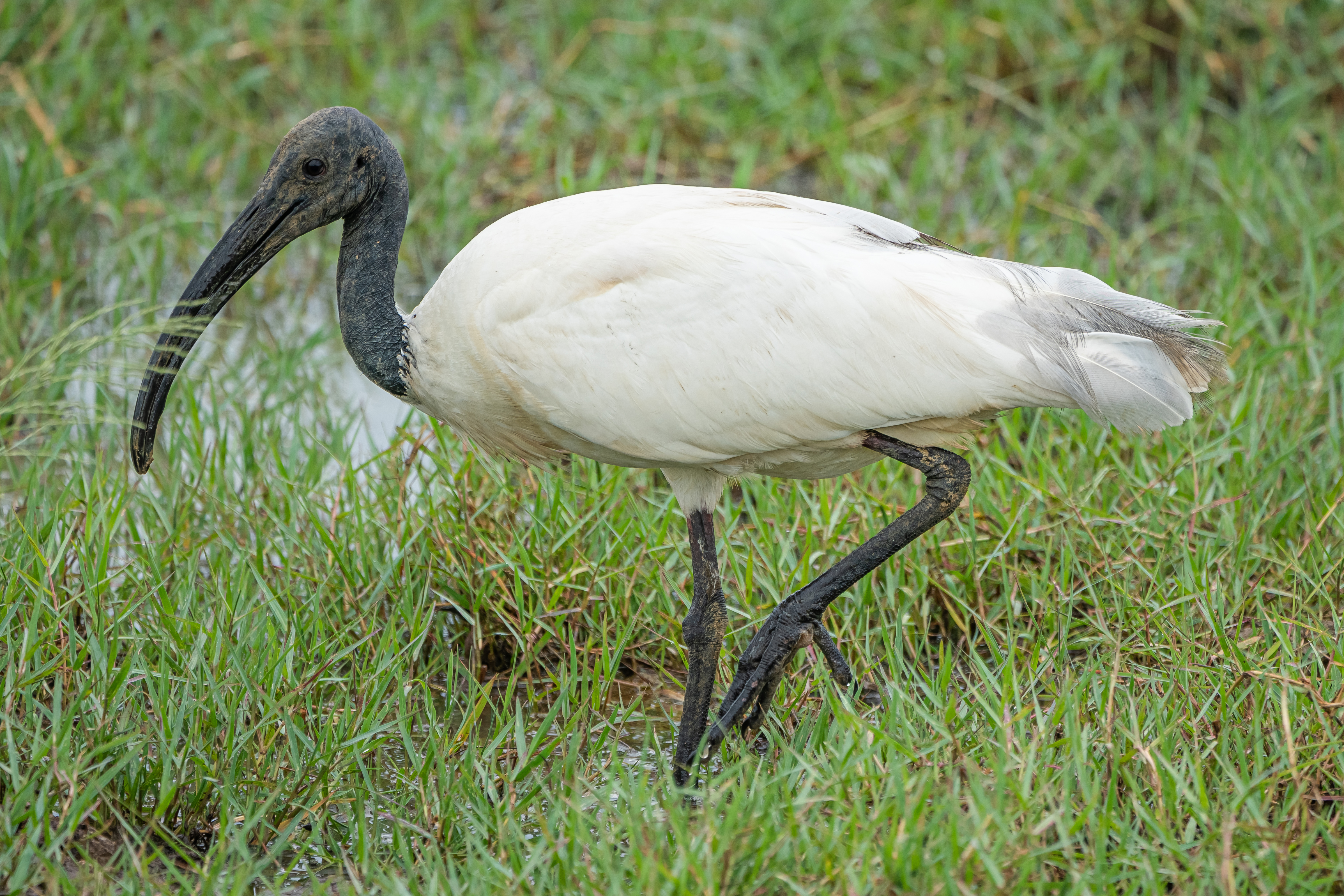 Black-headed Ibis in Bundala National Park, Sri Lanka